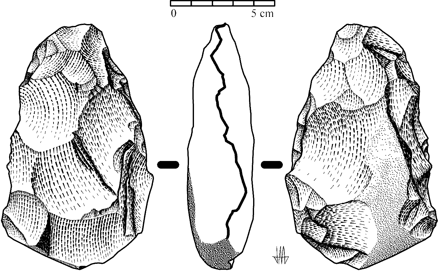 Tipycal Acheulean Handhaxe, it has ovate forms and proceed from a superficial site in the Valladolid province (Spain), in the Douro valley.